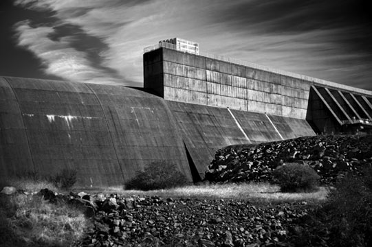 Oroville Dam face, with spillway. The dam is located near Oroville, in Butte County, California.